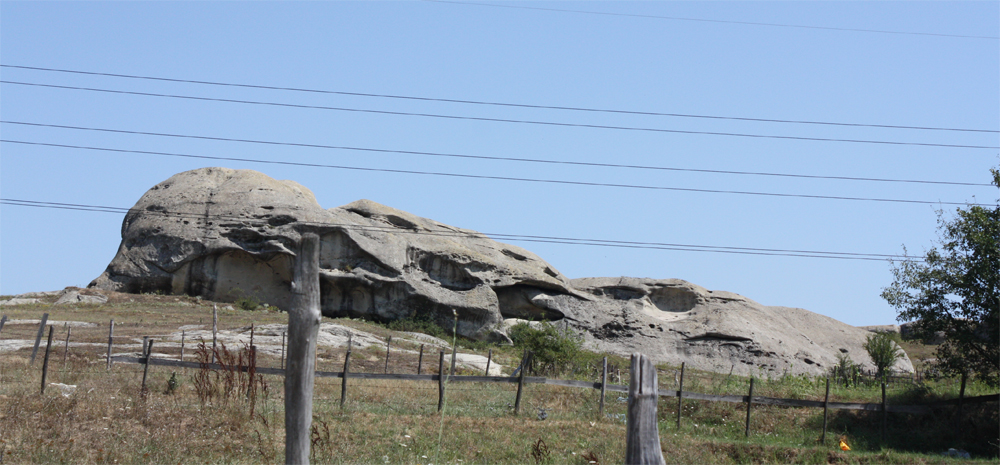 Interesting rock formations in Benkovski village Интересни скали в с.Бенковски